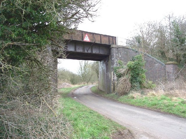 Radstone, Northamptonshire: bridge carrying the disused route of the former Great Central Main Line over the minor road linking the hamlet with the A43